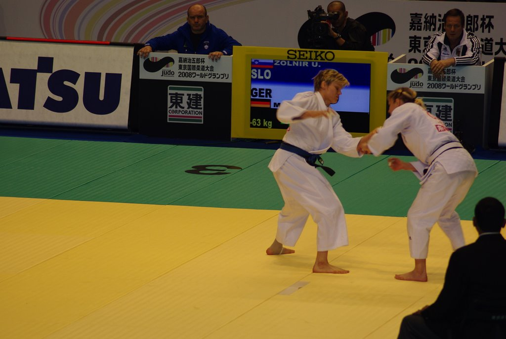 Žolnir (SLO) vs Malzahn (GER), 2008 Kano Cup Day 2